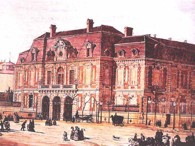 Palacio del Duque de Úceda (Plaza de Colón) (Madrid). Old engraving.